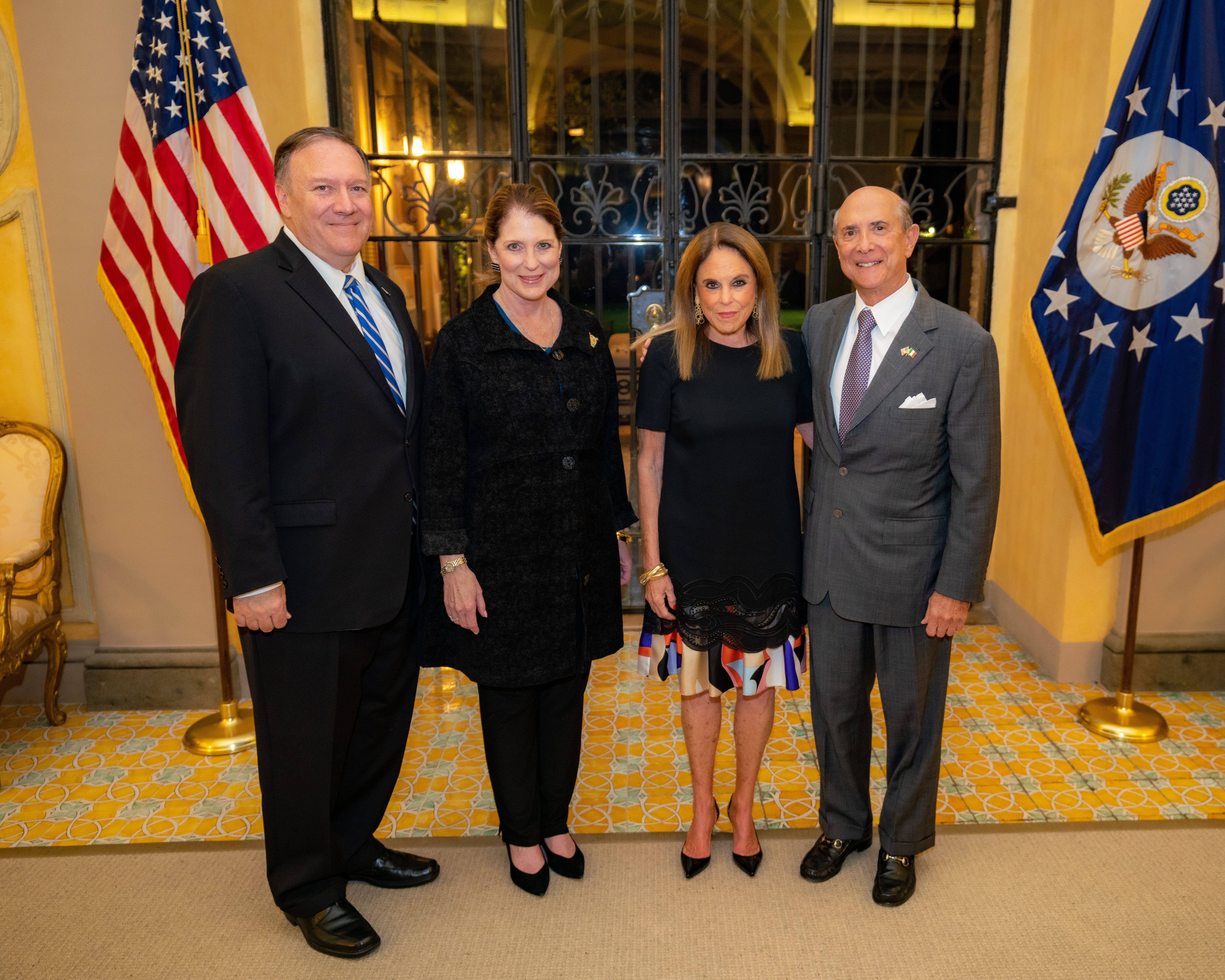 U.S. Secretary of State Michael R. Pompeo Mrs. Susan Pompeo attend a dinner hosted by Ambassador Eisenberg​ with U.S. and Italian business leaders in Italy, on October 3, 2019. [State Department photo by Ron Przysucha/ Public Domain]